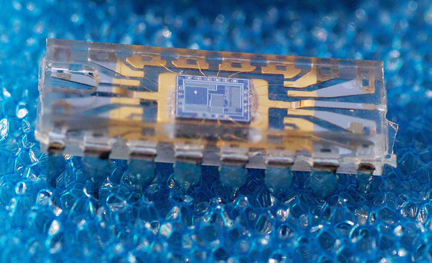 Photo of the 1981 Xerox PARC optical mouse chip designed by Richard Lyon and Martin Haeberli, packaged in a standard 16-pin DIP using injection molding with transparent plastic. Photo by Richard Lyon, 2008.